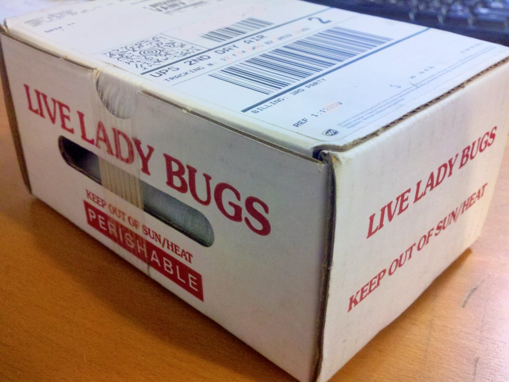 Hippodamia convergens, the convergent lady beetle is a medium sized orange and black species that is commonly sold for biological control of aphids. A single larvae will eat about 400 aphid prior to pupating. An Adult can consume over 5,000 aphids in it lifetime.